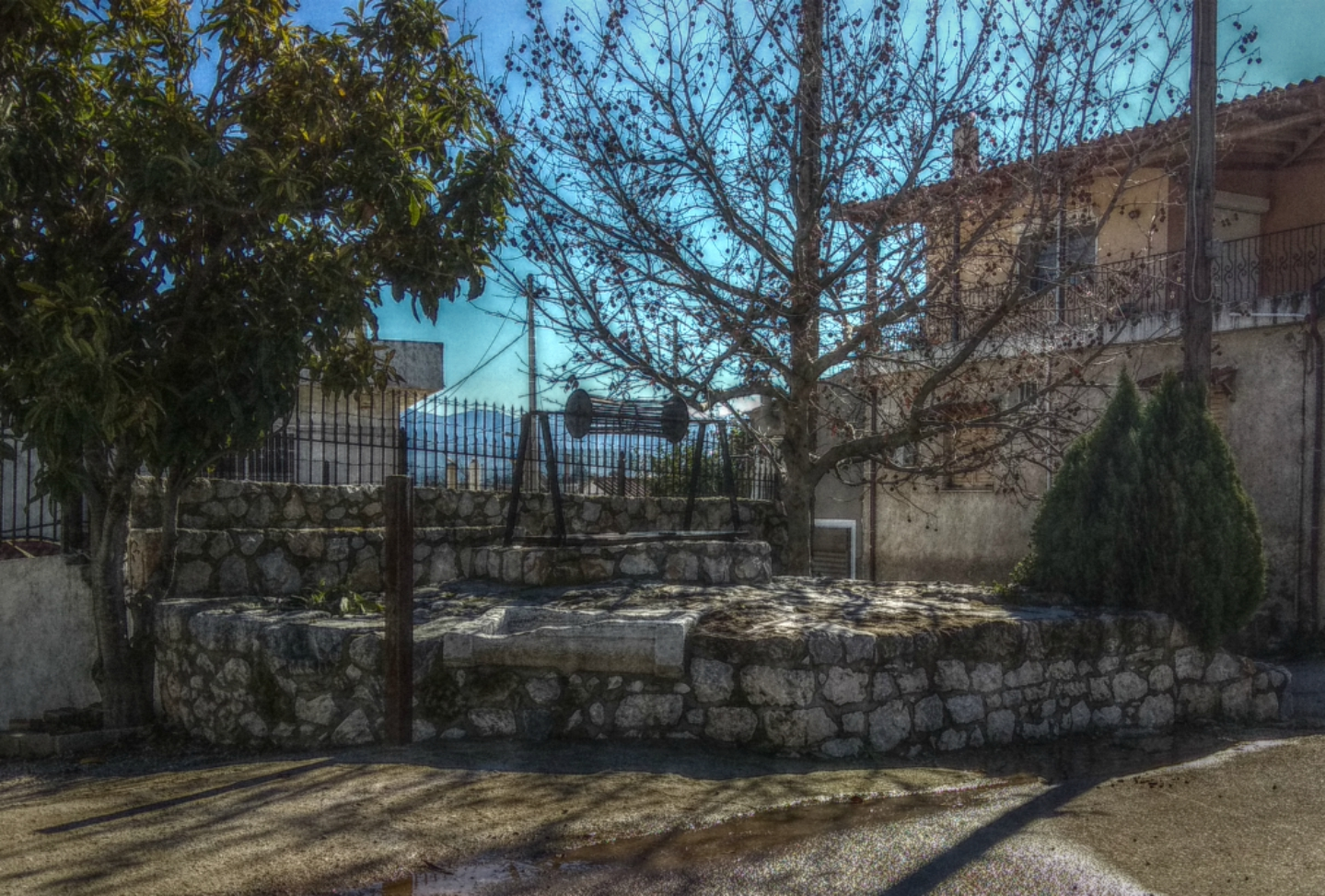 The old big well at Agios Thomas Tanagras known as pousiliki